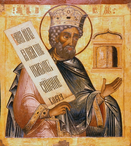 King David, Russian icon from first quarter of 18th cen.